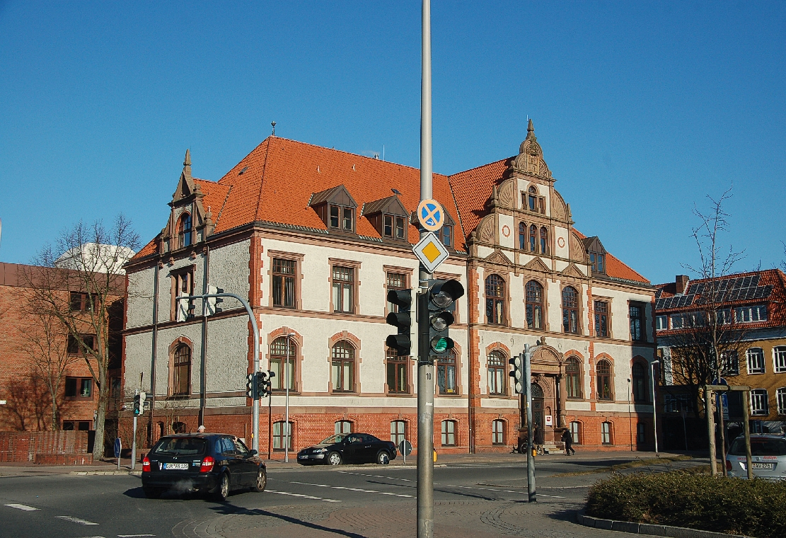 Pictures from Cuxhaven